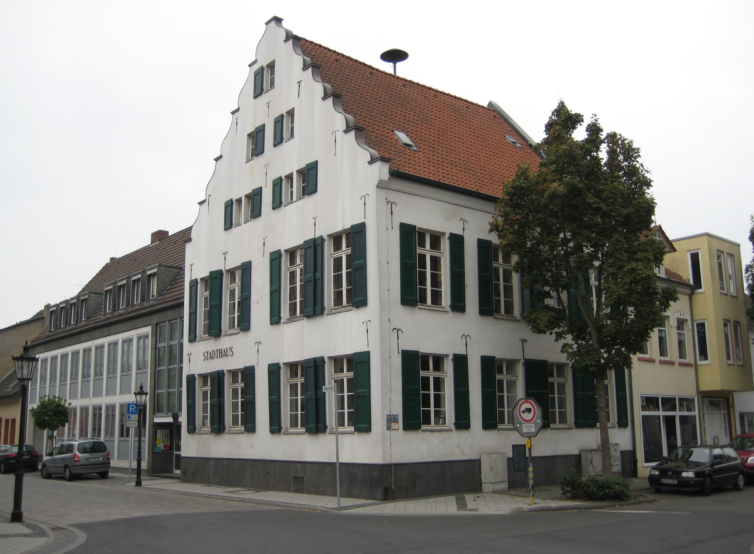 Rathaus Orsoy 2009